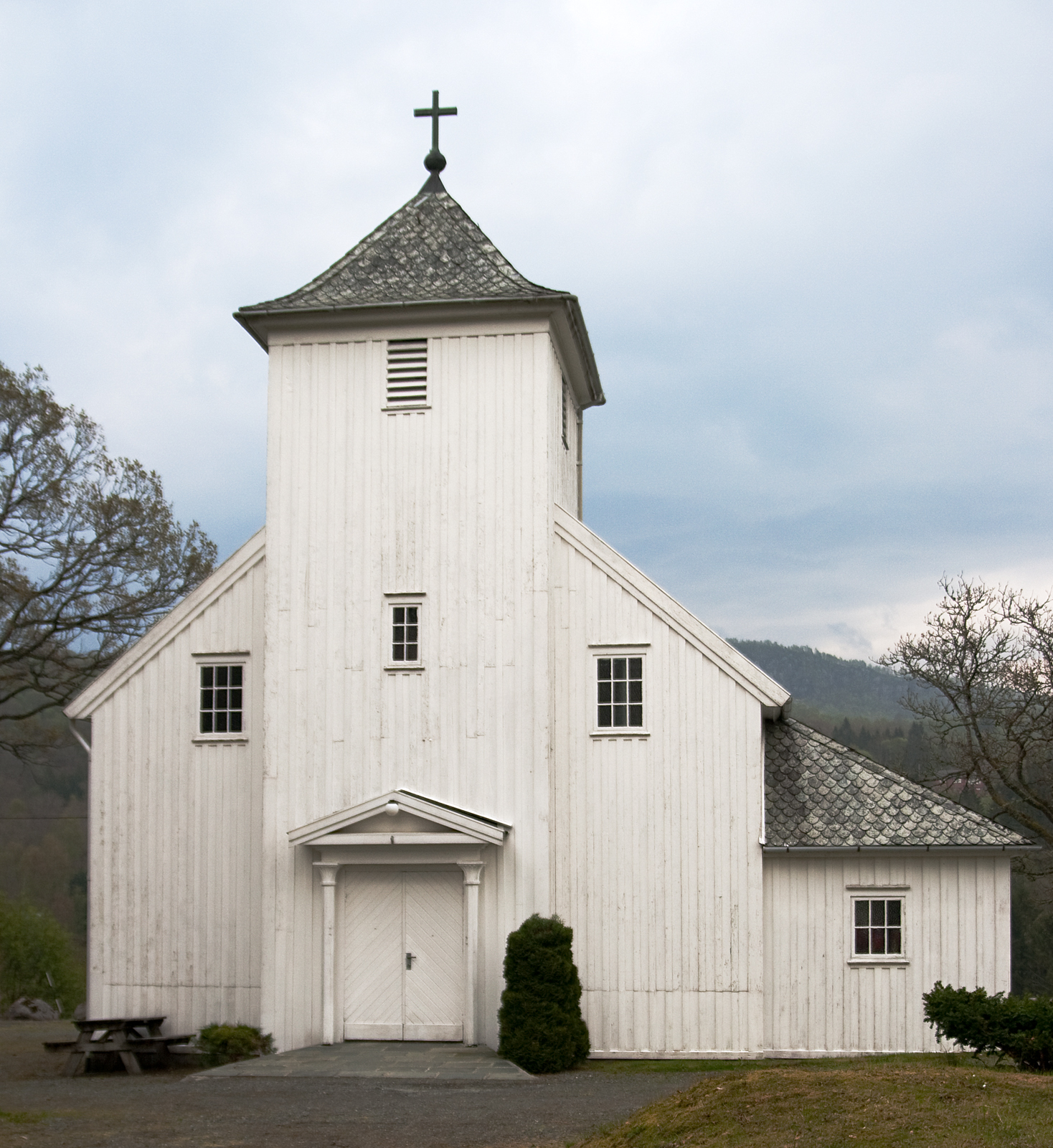 Picture of Jørstad kyrkje.